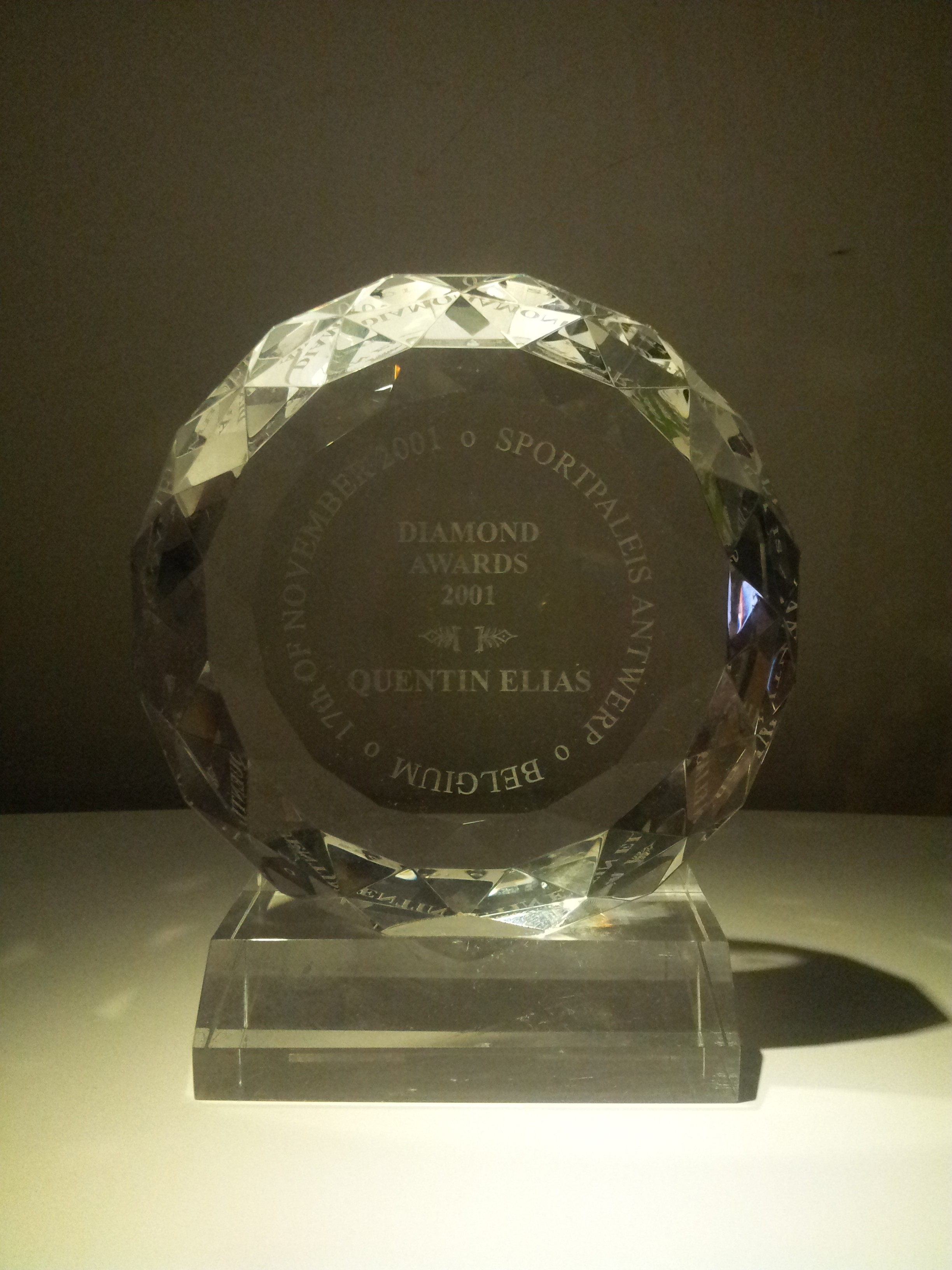 this awards diamond 17 november 2001 Quentin Elias